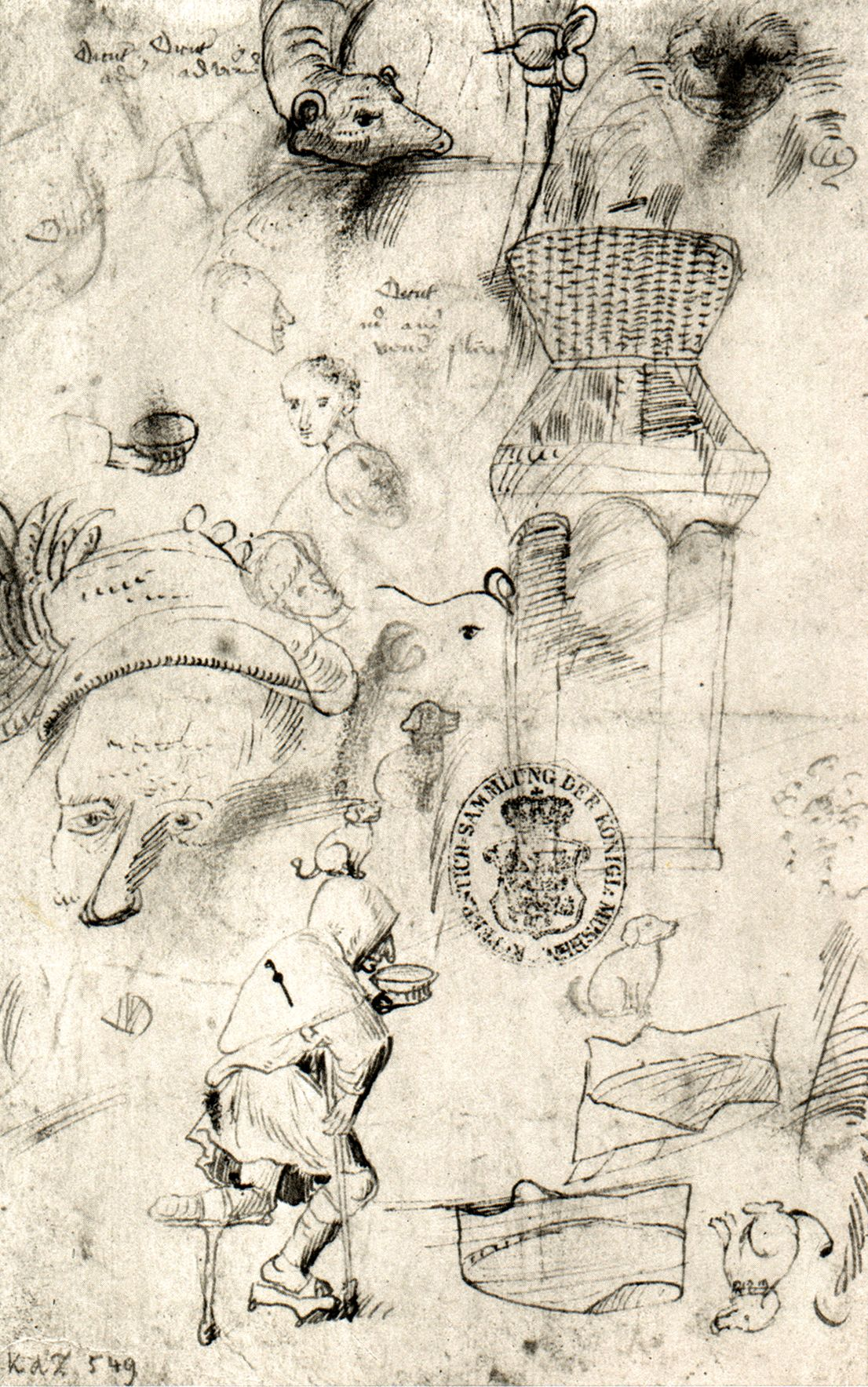 Reverse of a two-sided drawing. For the front, see File:The Woods that Hears and Sees Bosch.jpg.